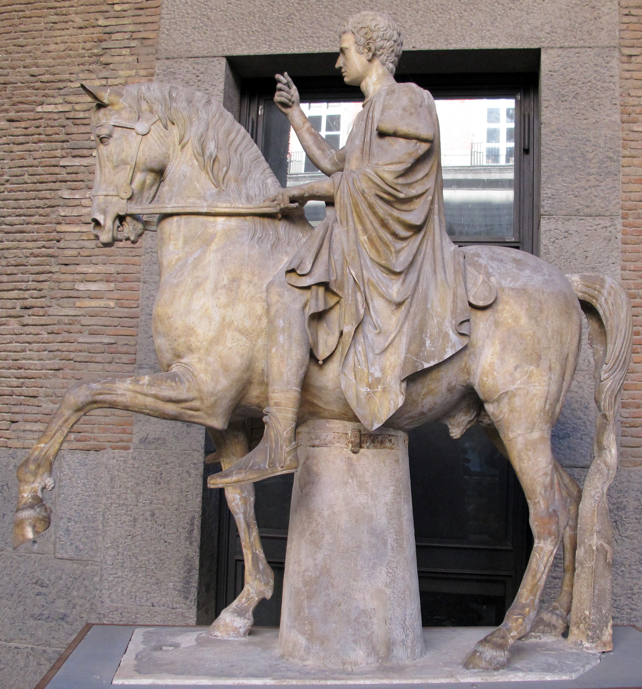 Equestrian statue of Marcus Nonius Balbus the Younger, from Herculaneum, ca. 50 CE. Naples National Archaeological Museum (Inventory)Native nameMuseo Archeologico Nazionale di NapoliLocationNaples, ItalyCoordinates40° 51′ 12.16″ N, 14° 15′ 01.75″ E Established1585Web control : Q637248 VIAF: 134828205 ISNI: 0000 0001 2289 7996 LCCN: n80044962 NLA: 35416902 GND: 1053223-7 WorldCat